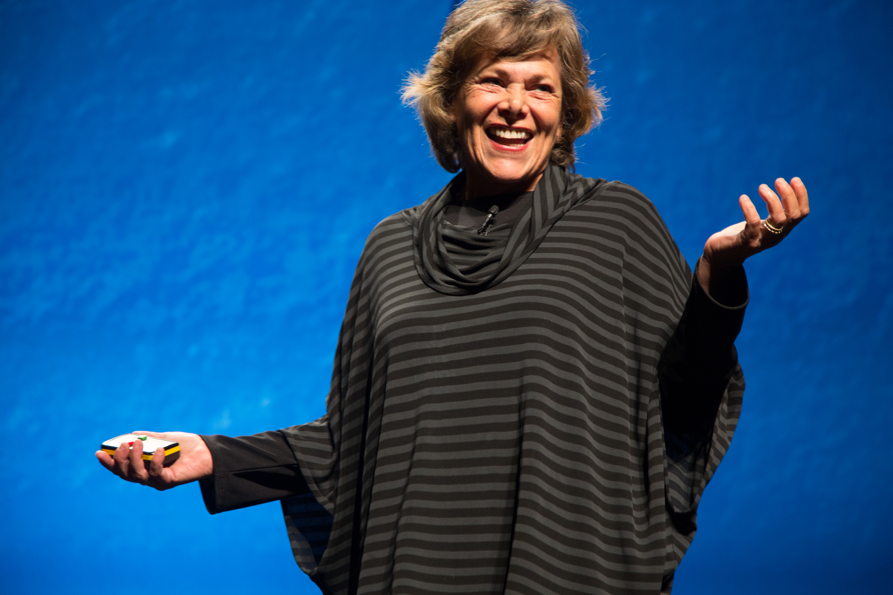 Ellen Langer - PopTech 2013 - Camden, ME